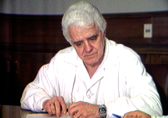 Dr. Hugo Villar. Image taken from a video made ​​by the author, when Dr. Hugo Villar was Director of the Hospital.